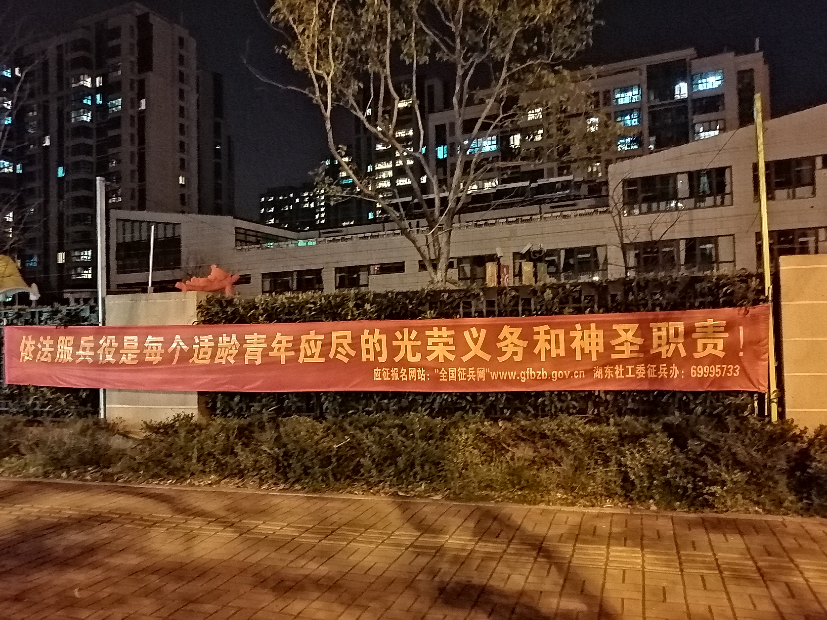 A military service slogan located in Suzhou Industrial Park, China. The slogan shows "Serving in the army according to the law is a glory duty for every age-appropriate youth". 中文（中国大陆）: 一处悬挂于江苏省苏州市工业园区小区外的兵役宣传标语：“依法服兵役是每个适龄青年应尽的光荣义务和神圣职责”。